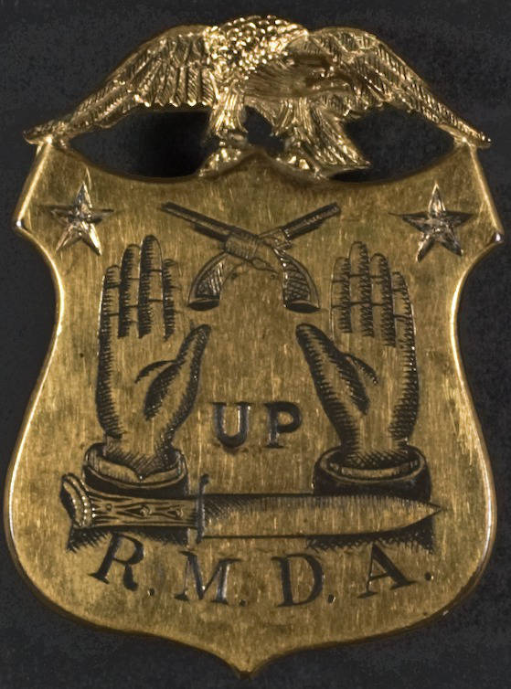 Original badge of the Rocky Mountain Detective Association. Shield surmounted by eagle. Spring pin on reverse. Gold colored metal. Obverse engraved with a star in each upper corner, a pair of crossed revolvers between; center, a pair of upraised hands on each side of the word " UP "; at foot, R.M.D.A.